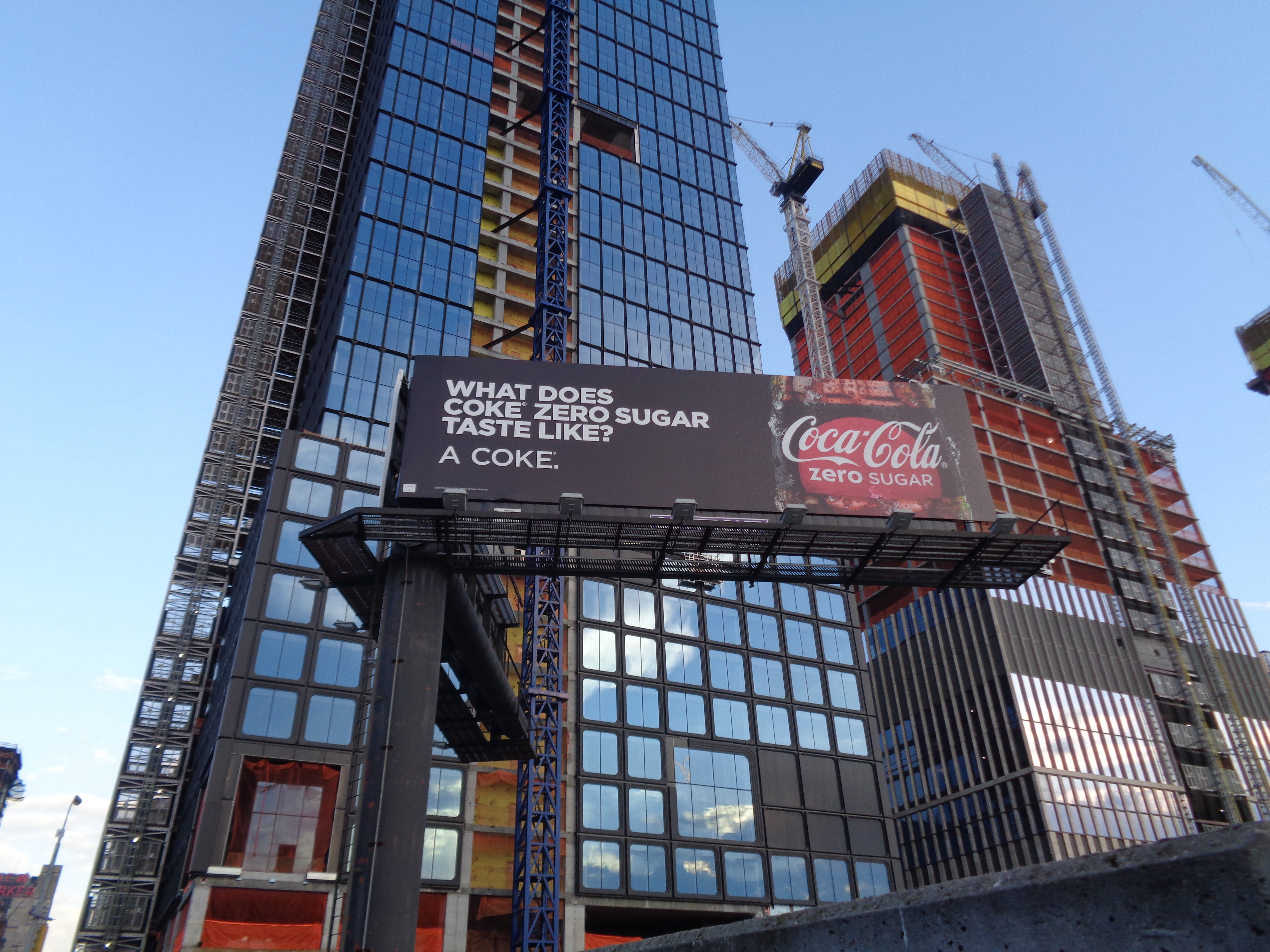 An advertisement for Coca Cola Zero Sugar on 34th Street between 11th and 12th Avenues, across from Hudson Yards and the Javits Center in West Midtown, Manhattan.